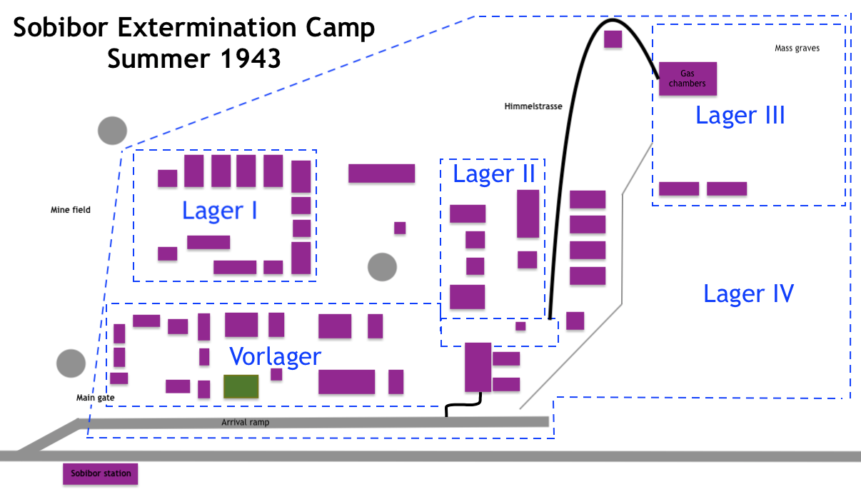 This isn't to scale and ongoing archaeological work might improve our understanding of the layout of the camp.